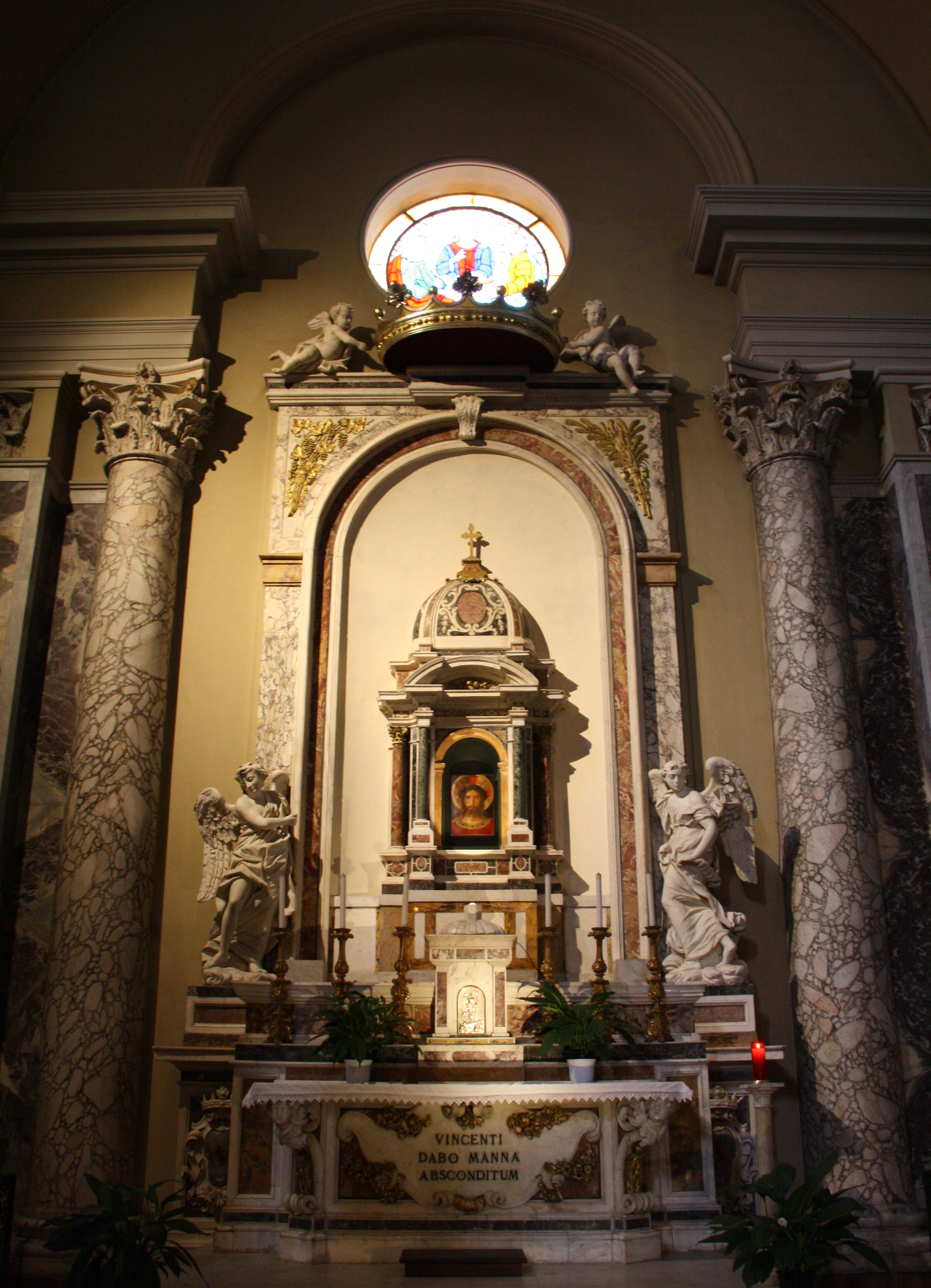 Italy, Livorno, Piazza Grande, Cattedrale di San Francesco. The left side lateral chapel dedicated to the Eucharist with the painting “Christ crowned with thorns” by Fra Angelico displayed over the tabernacle.